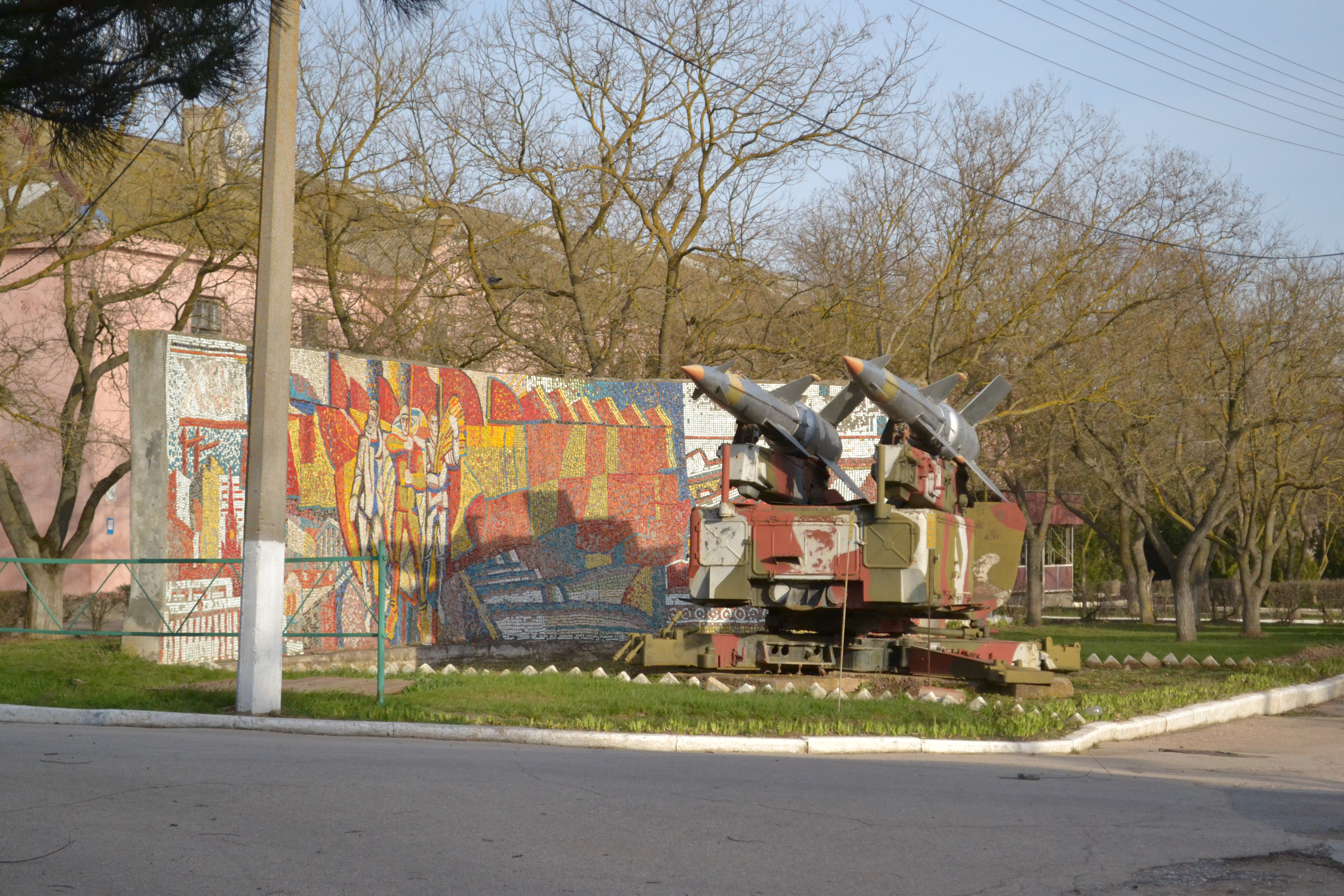 55th Anti-Aircraft Artillery regiment in Yevpatoria during the 2014 Crimean crisis.